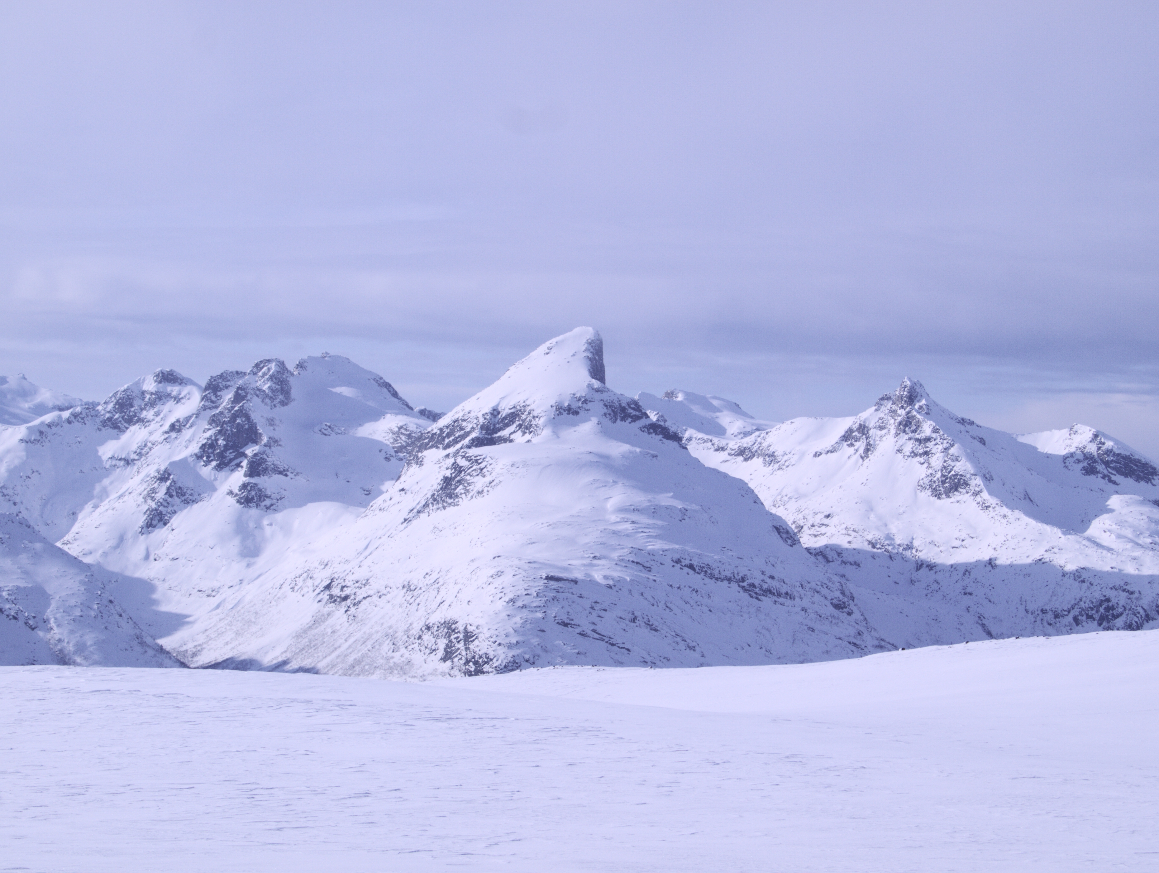 Norway/Troms/Kvaloya Store Blåmann